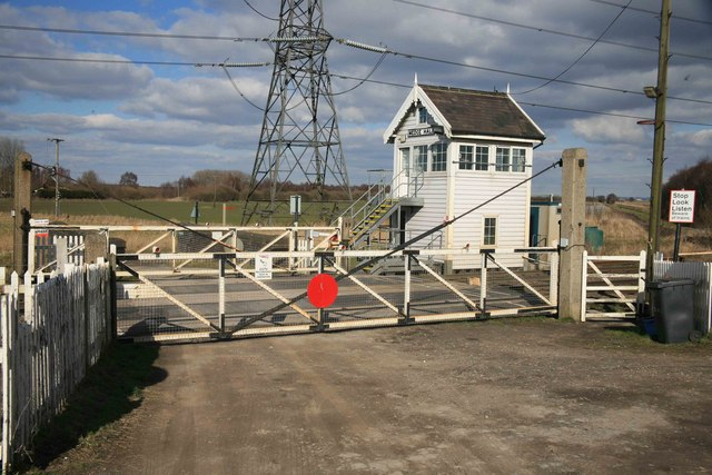 Medge Hall gate box Once a signal box this building now controls the gates to the minor road leading over the railway from the canal towards Medge Hall.